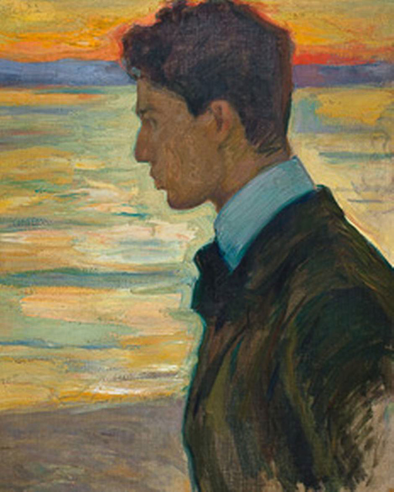 BORIS BESIDE THE BALTIC AT MEREKULE, 1910. Portrait by his father, Leonid Pasternak, oil on canvas